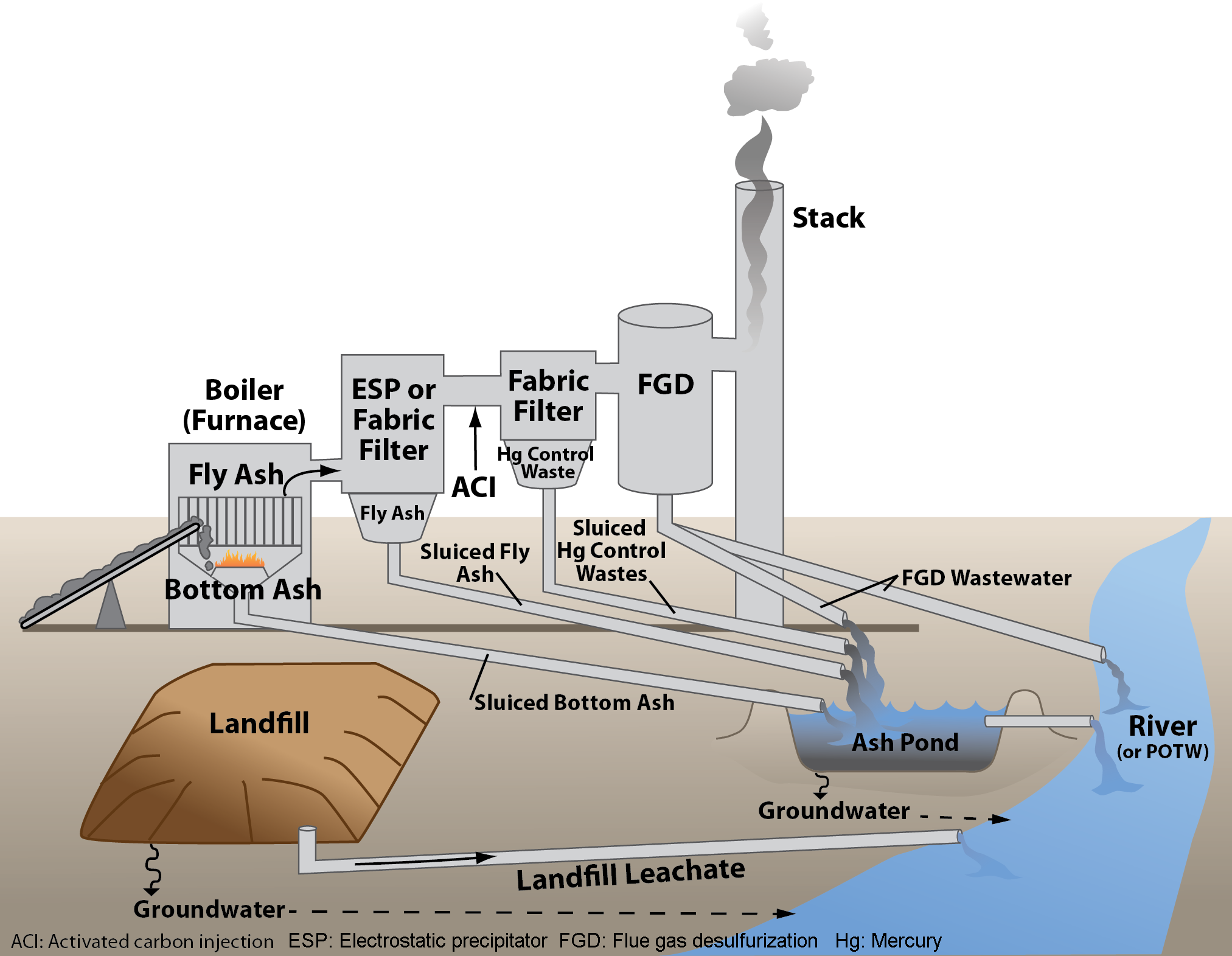 Illustration of water pollution wastestreams at typical coal-fired electric power plants in the United States. The wastestreams include: flue gas desulfurization, fly ash, bottom ash, flue gas mercury control, landfill leachate, and gasification of fuels such as coal and petroleum coke. (POTW: Publicly owned treatment works; a municipal sewage treatment plant).